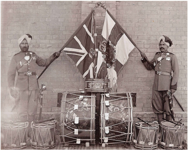 52nd Sikh-Regiment Kohat,-Khyber-Pakhtunkhwa-province,-Pakistan-1905-2